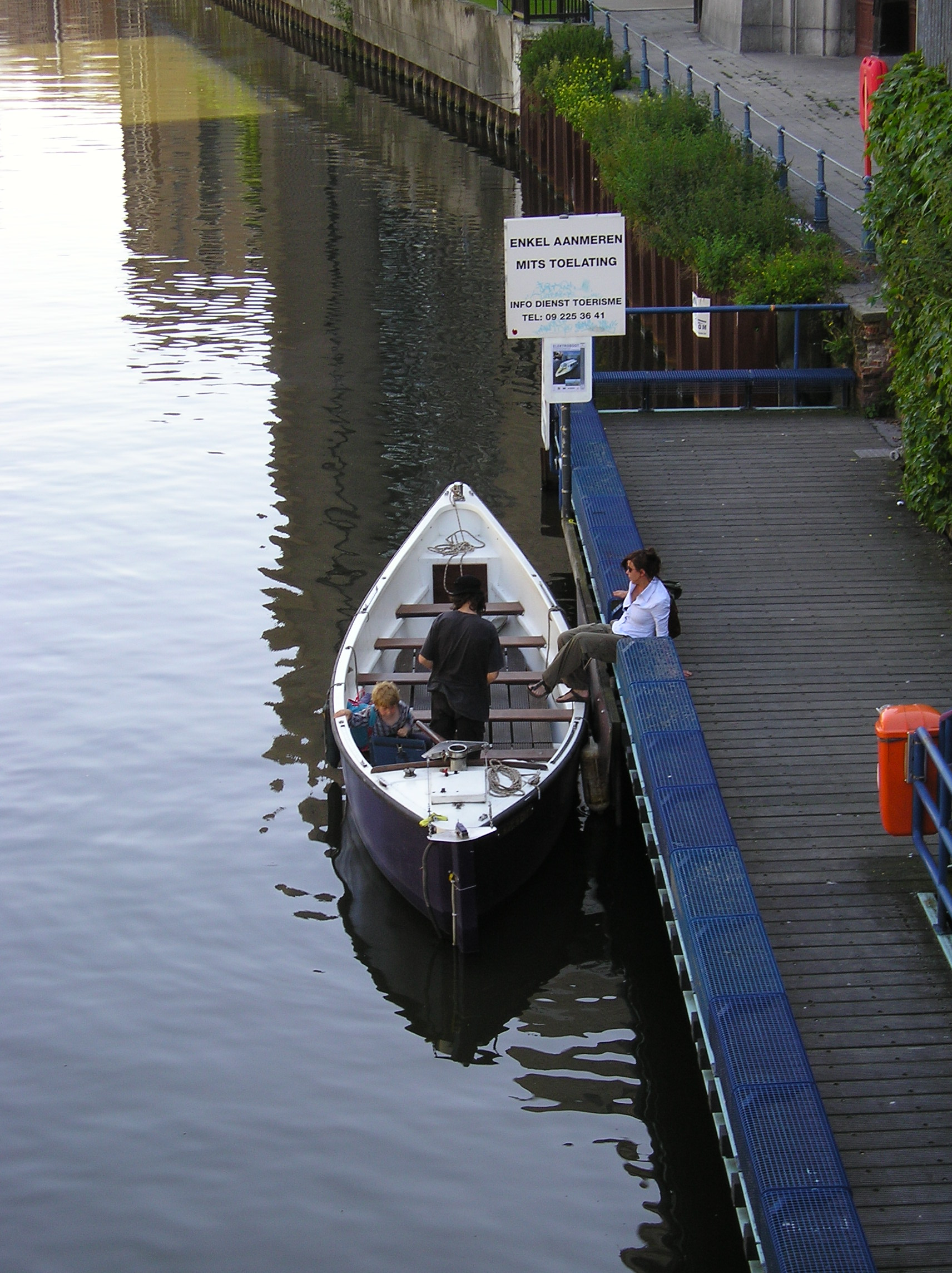 Elektroboot Piraat, boat stop Zuid.